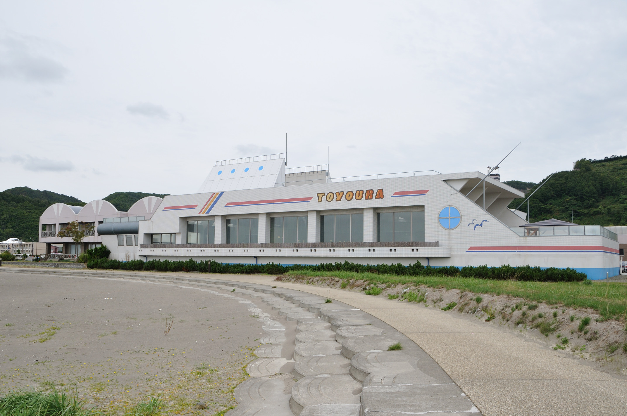 Toyoura hot springs 'Shiosai', Toyoura, Hokkaido, Japan